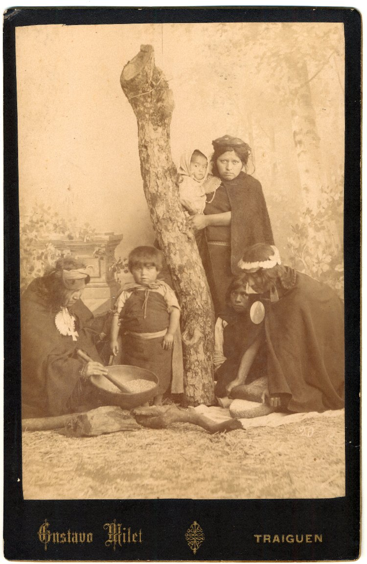 Photograph (black and white); cabinet card; a studio portrait of three Mapuche women and three Mapuche children against a painted background of an outdoor scene; the women and children wear variously trarilonko (hair lace/headgear), quipan ( a square cloth, wrapped around the body), trarihue (waistband) ikulla (shawl), and tupu (clothes pin); two of the women are kneeling, engaged in processing foodstuffs, the third women stands next to a tree trunk holding one of the children; Traiguen, Chile.